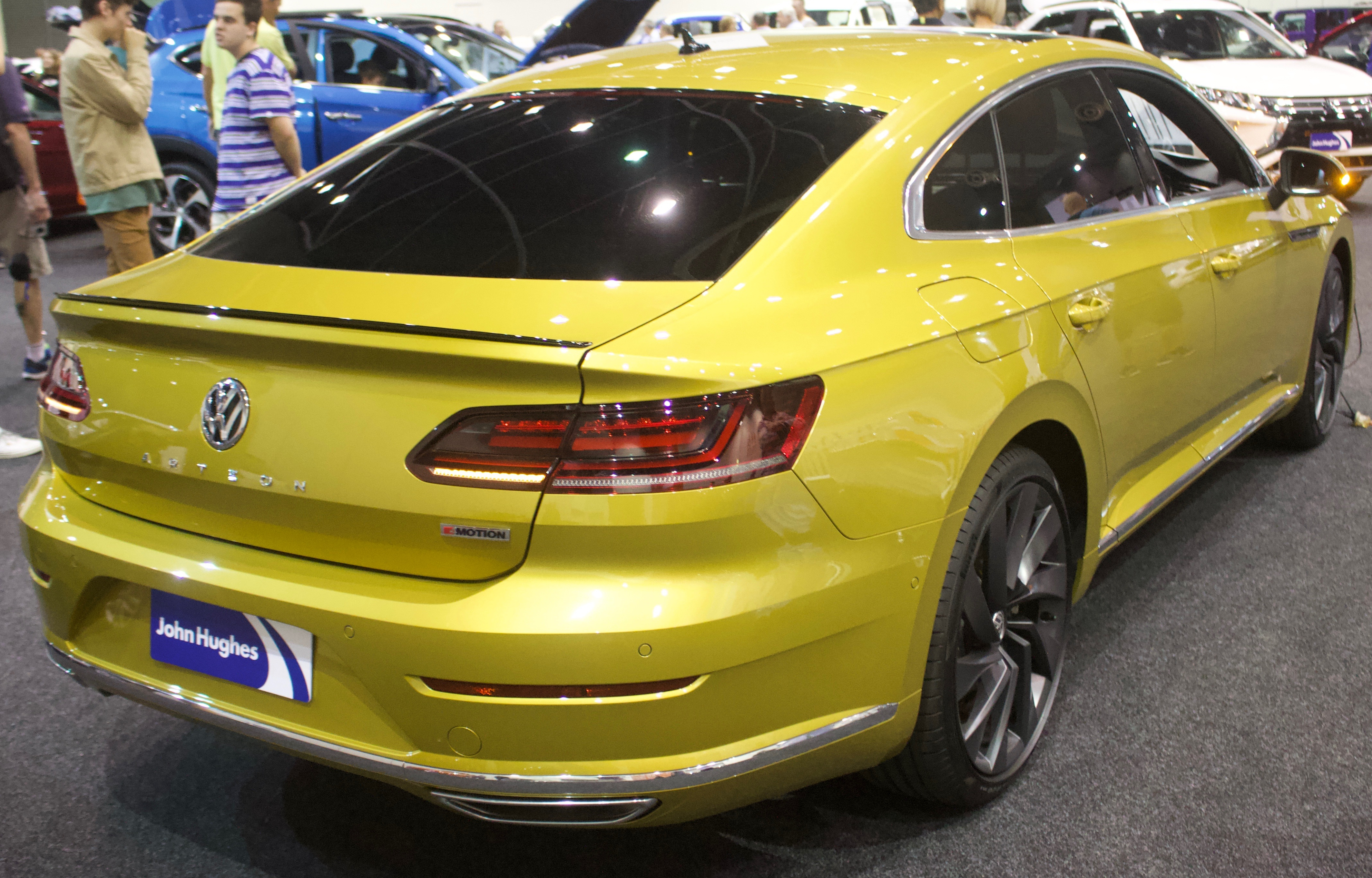 2018 Volkswagen Arteon (3H MY18.5) 206TSI R-Line sedan. Photographed at the 2018 Motor Pavilion at Perth Convention and Exhibition Centre, Perth, Western Australia, Australia.